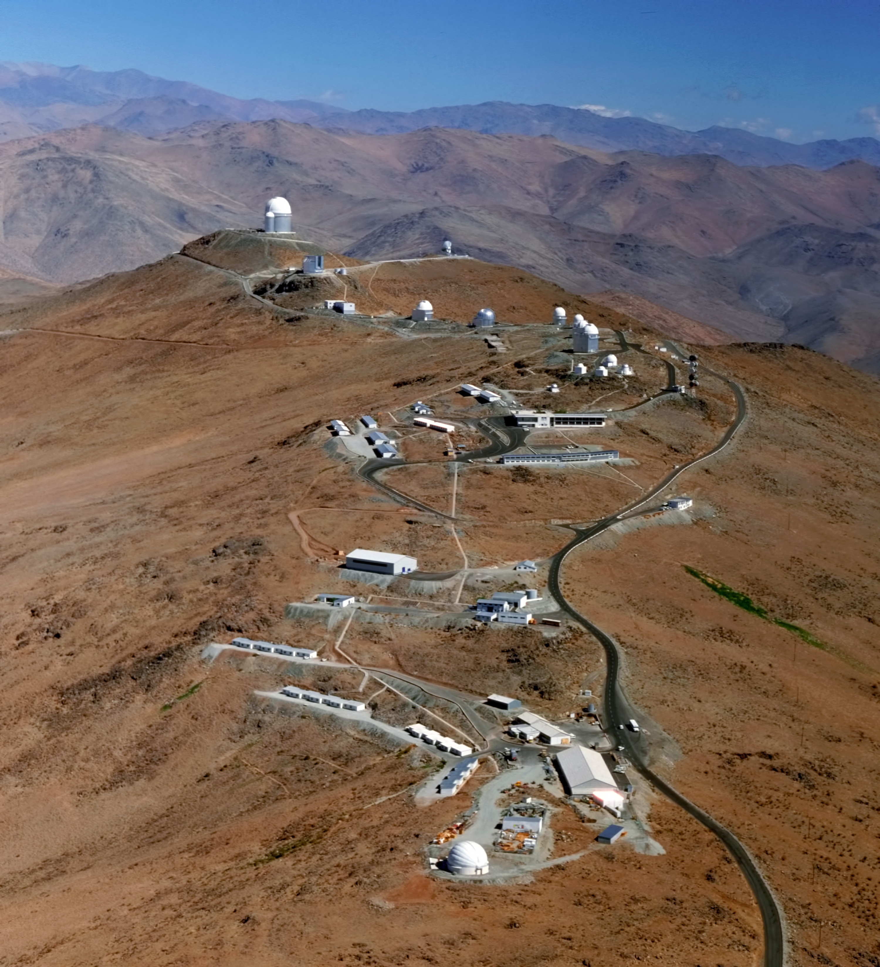 An aerial view of the La Silla site in Chile